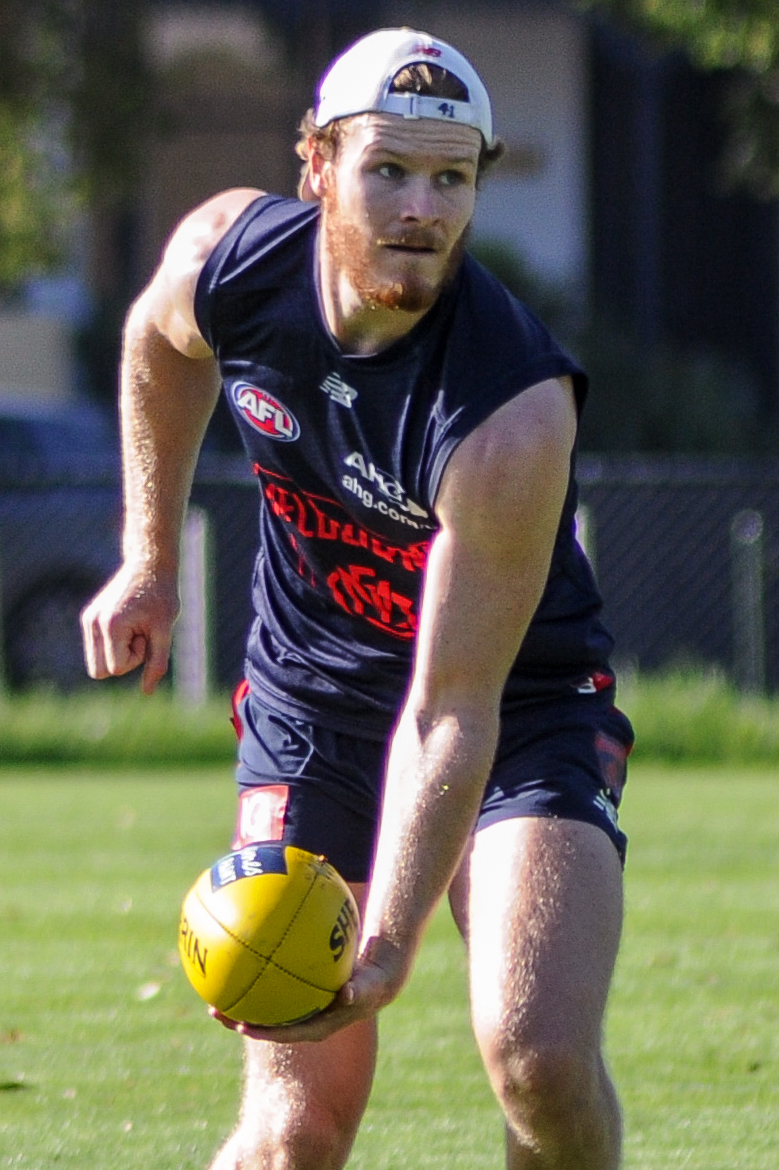 Mitch White during Melbourne training on 28 March 2017 at Gosch's Paddock in Melbourne, Victoria.